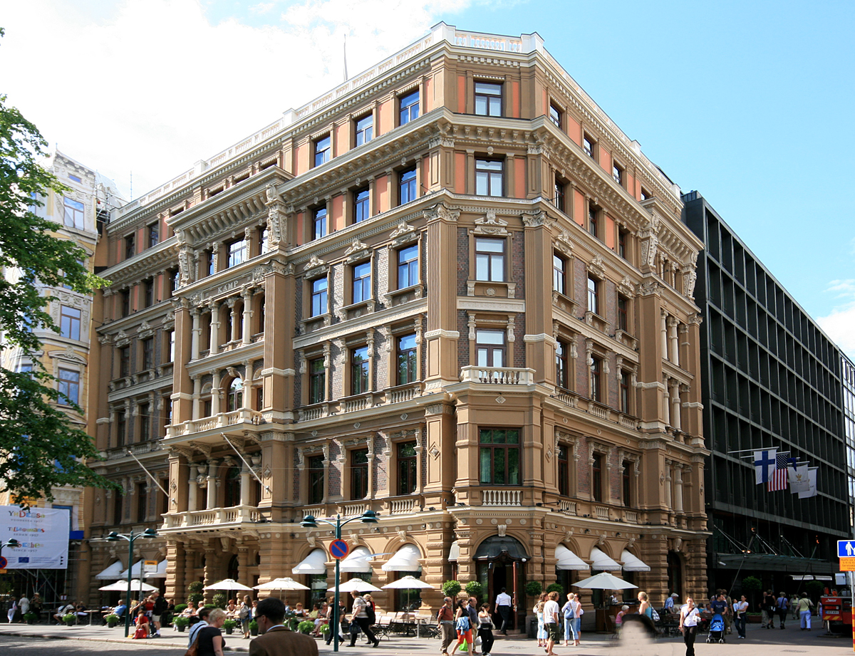 Hotel Kämp, Pohjoisesplanadi 29 / Kluuvikatu 2, Helsinki, Finland. Built in 1969. Architect: Antero Pernaja. The facade is a copy of Theodor Höijer's old Hotel Kämp from 1887.